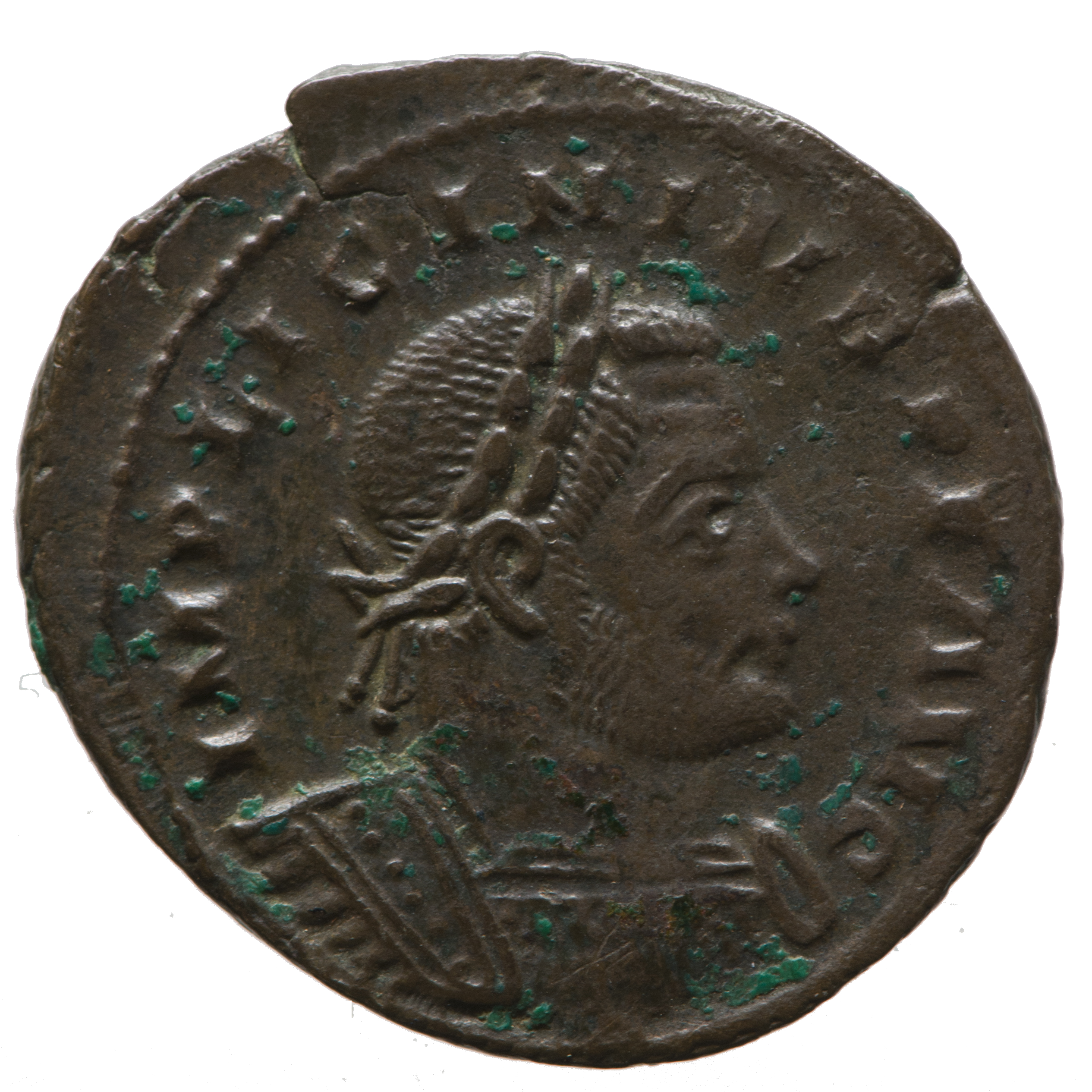 Obverse (front) of a nummus of w: Licinius I, showing head right, radiate, cuirassed.